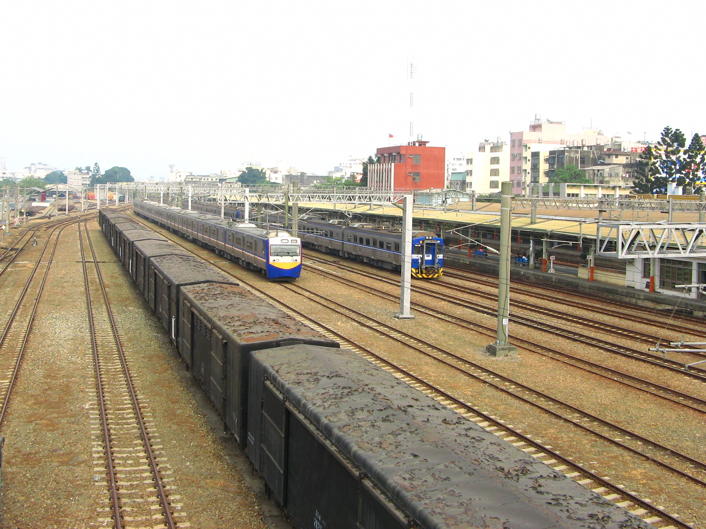 TRA freight cars, EMU700 and EMU500 trains at Chiayi Station.